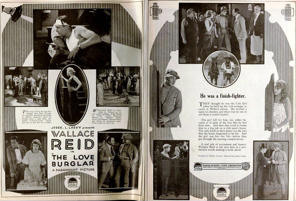 Advertisement for the American film The Love Burglar (1919) with Wallace Reid and Anna Q. Nilsson, on pages 614 to 615 of the July 19, 1919 Motion Picture News.